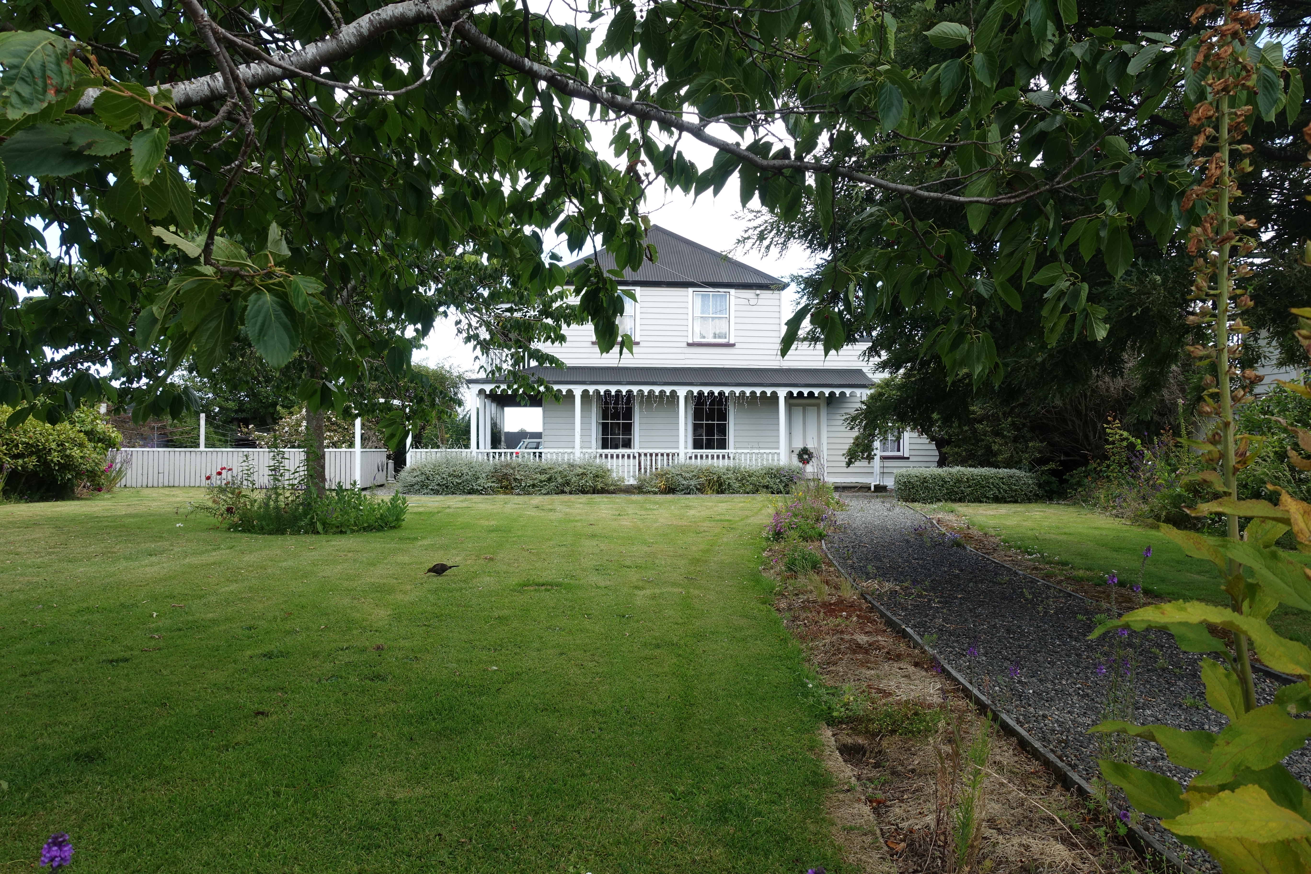 Daniel House in Riverton, the dwelling of Theophilus Daniel.